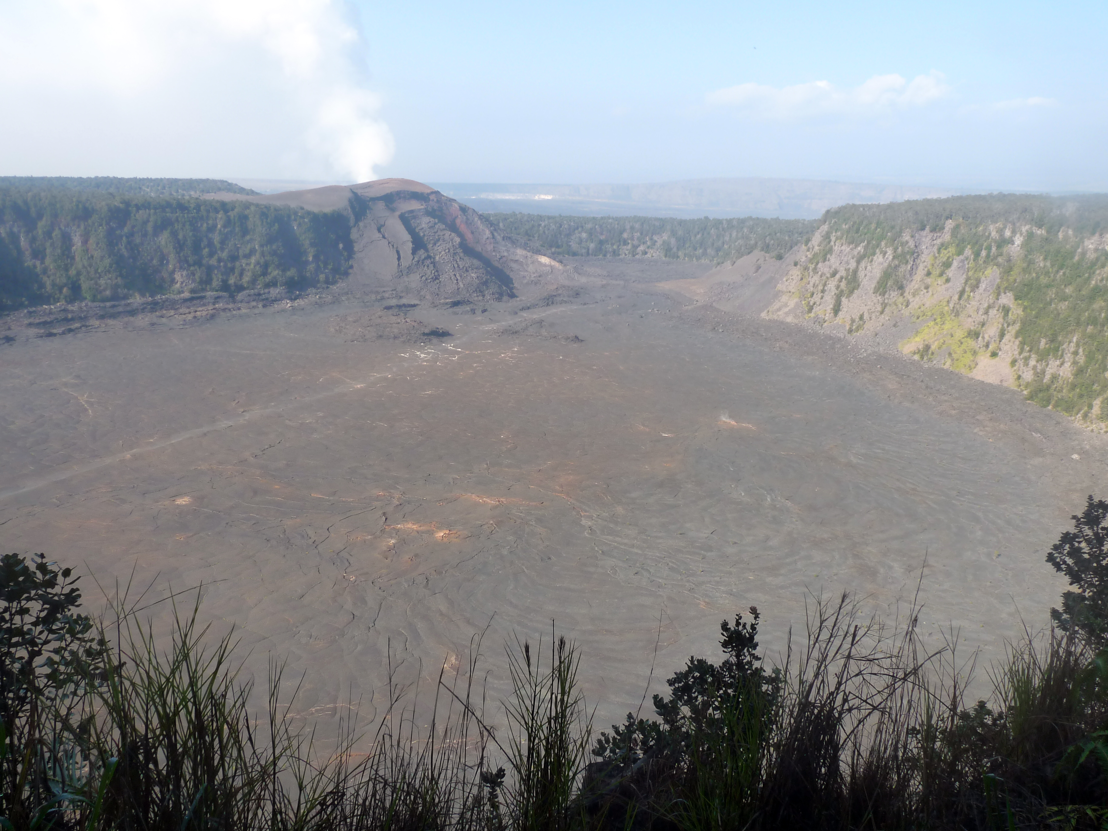 In Hawaii Volcanoes National Park.